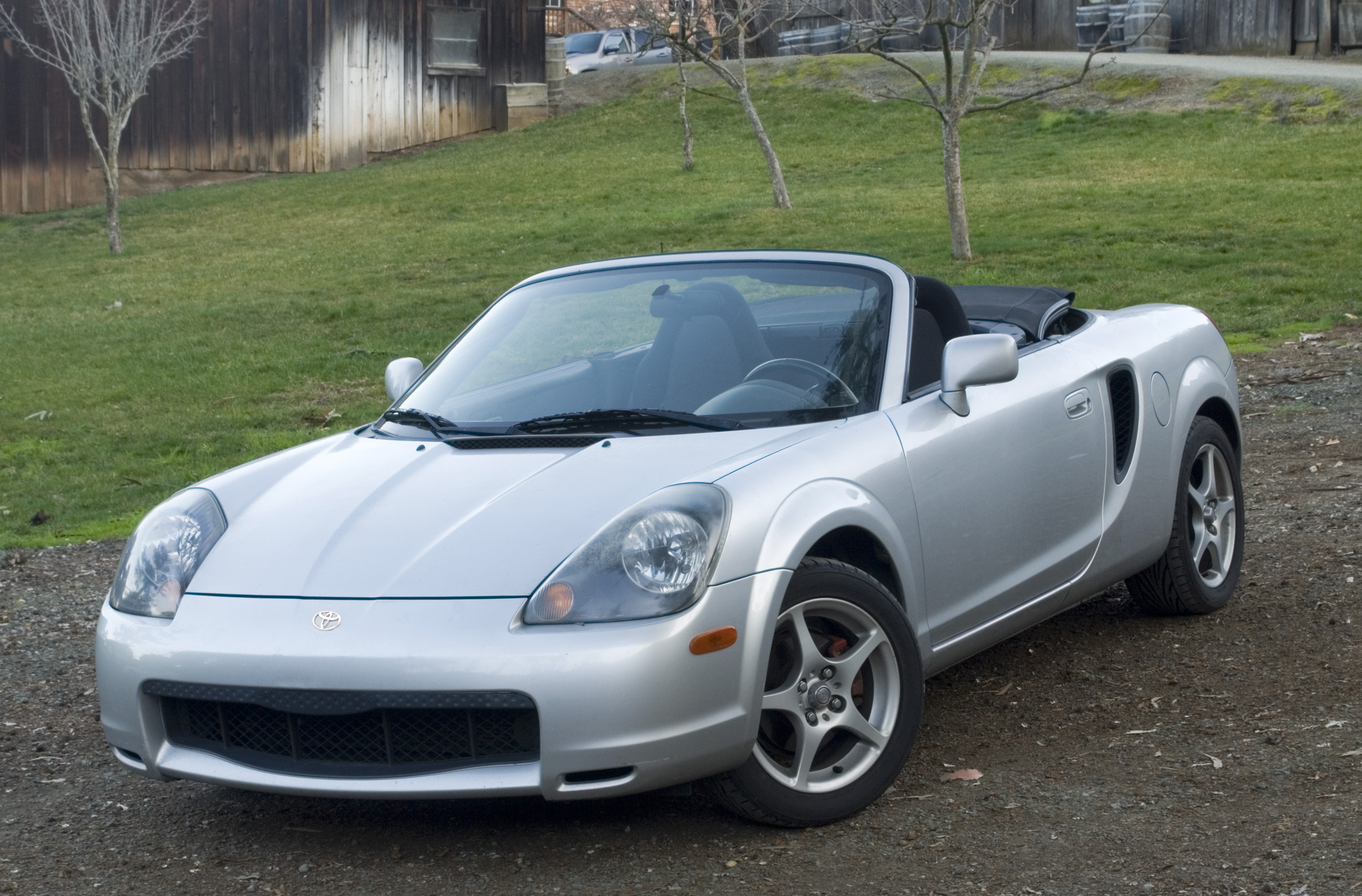 Third Generation Toyota MR2